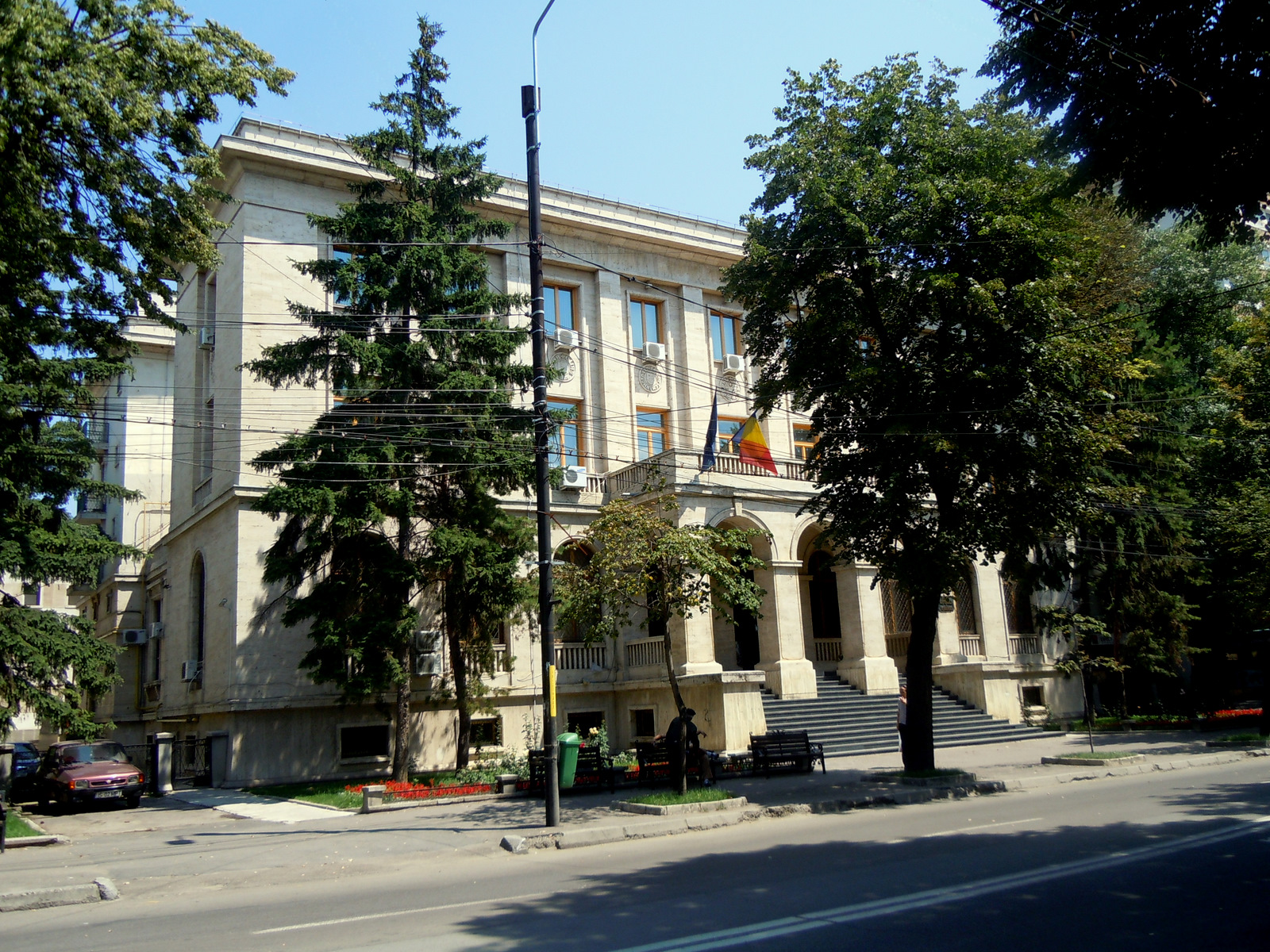 Iaşi , National Bank Headquarters , Iaşi, Romania